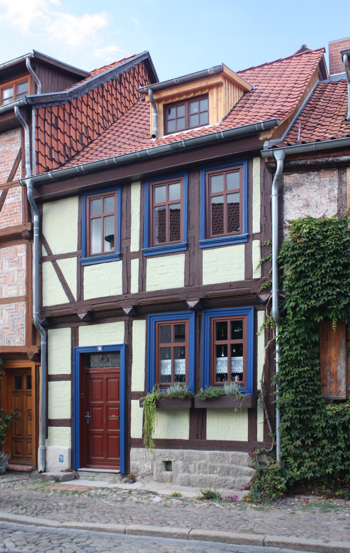 This is a photograph of an architectural monument.It is on the list of cultural monuments of Quedlinburg Augustinern 19 in Quedlinburg